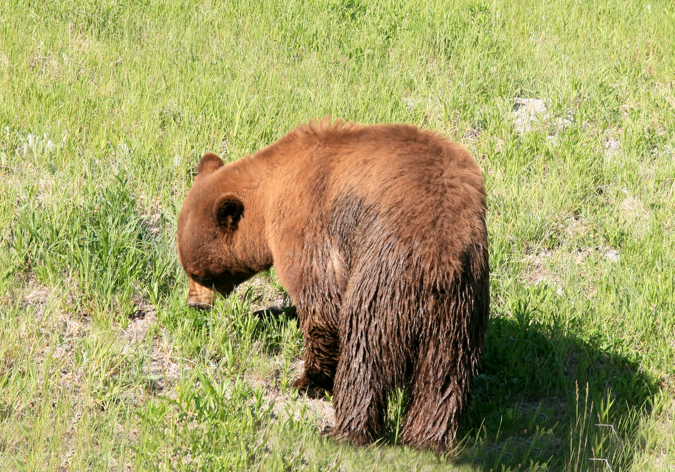 Ursus americanus, the American black bear at Yellowstone National Park